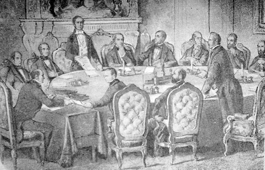 Treaty of Paris - the participants